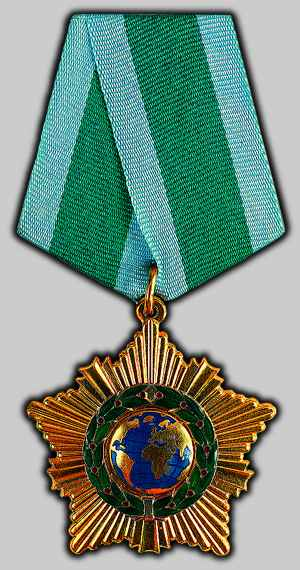 Russian Order of Friendship